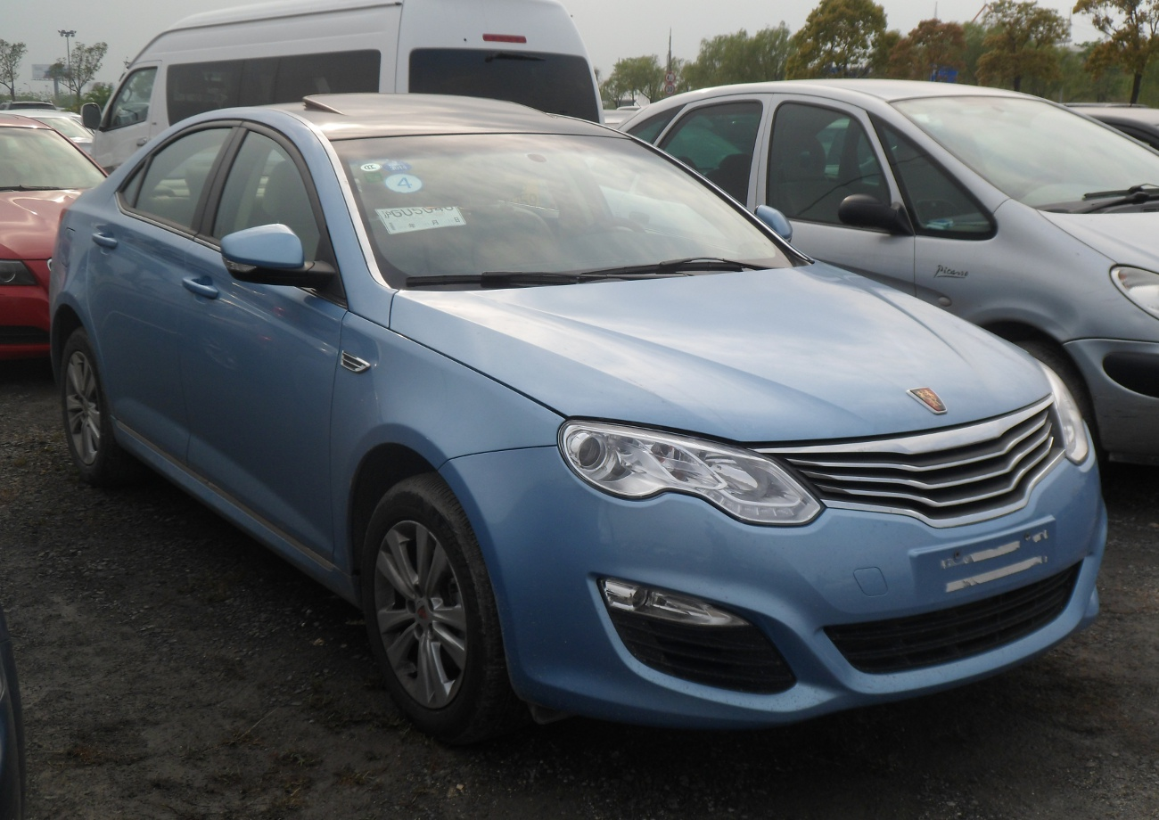 Roewe 550 facelift photographed in Anting, Shanghai municipality, China.